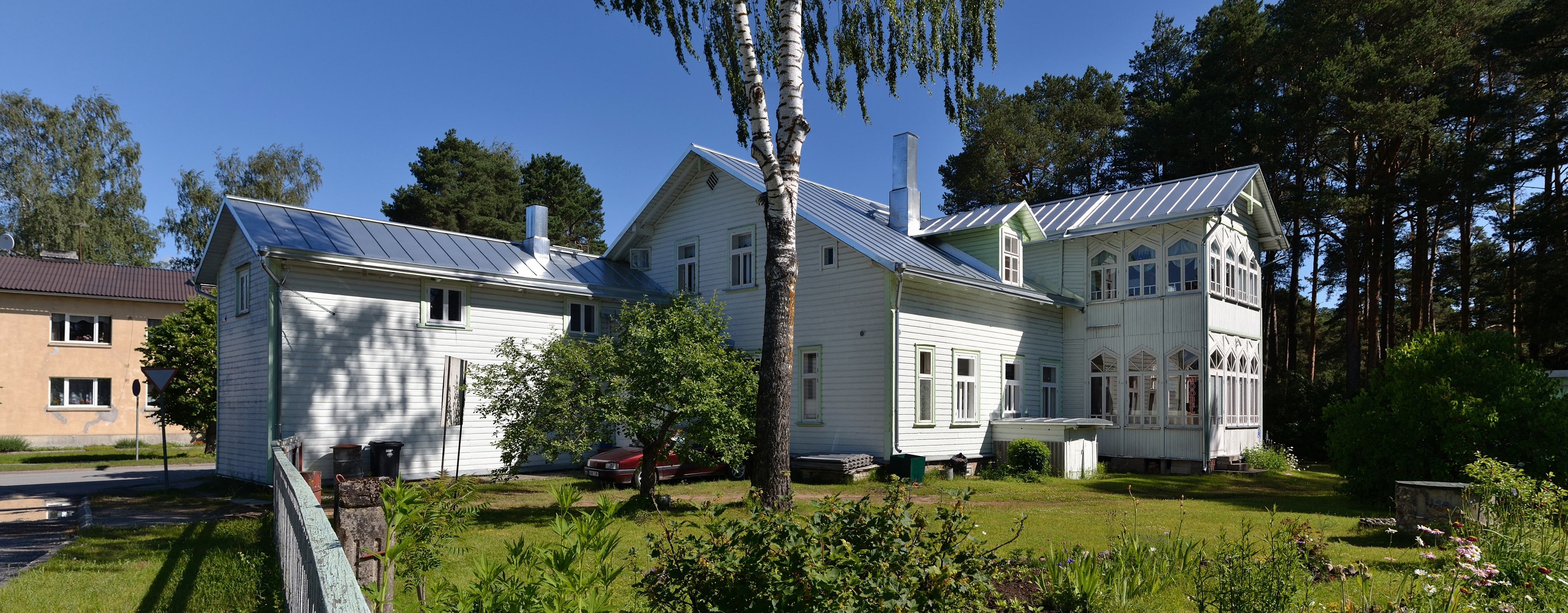 Pharmacy-house in Elva, Kesk 35